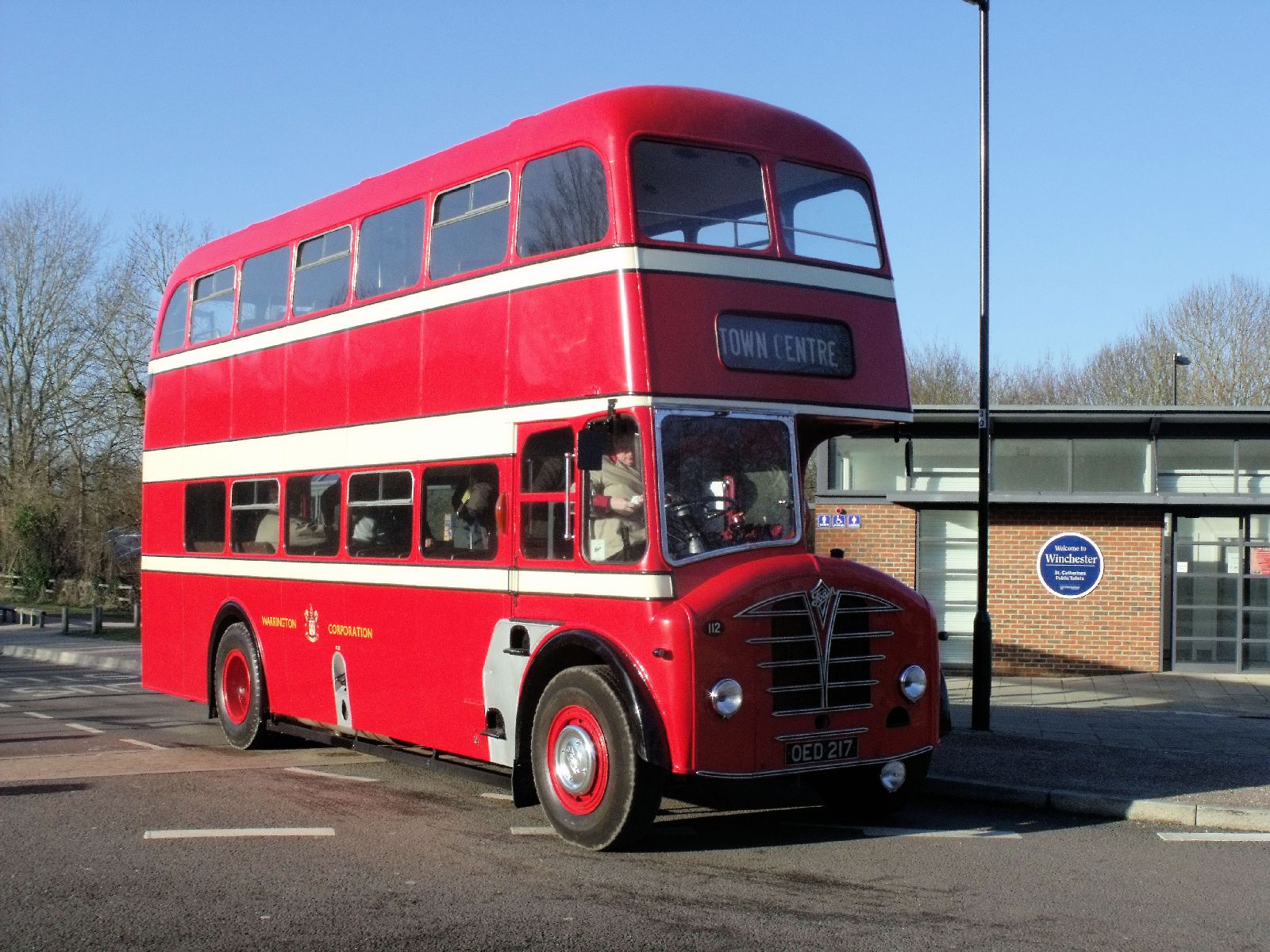 Foden PVD6